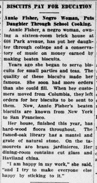 This is a news article from the University Missourian published in 1919 about Annie Fisher